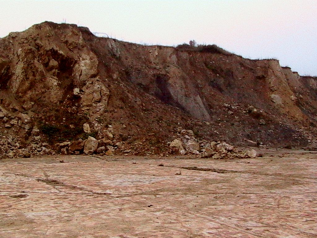 A massive layer of Bunte Breccie (literally colorful breccia) overlaying the limestone at the Gundelsheim quarry. The "Bunte Breccie" is a mixture of sediments (mostly limestone and clay, from small fragments to blocks several meters in size) that was ejected from the Ries crater. The abraded surface of the limestone below the "Bunte Breccie" shows scratches pointing towards the center of the Ries crater that were caused when the ejected material was moved at high speed across this surface. The Gundelsheim quarry is located approx. 7.5 kilometers east of the crater rim.